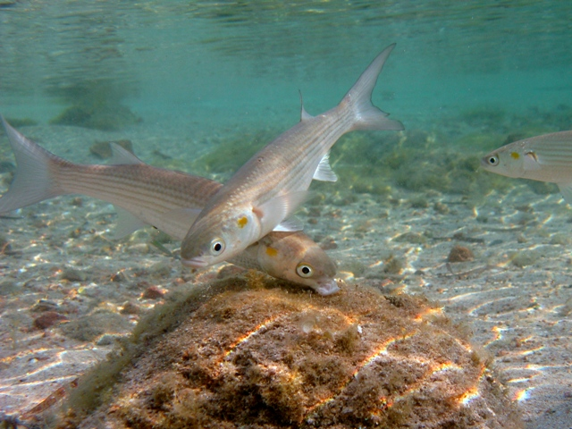 Liza aurata photographed in Sardinia, Italy.